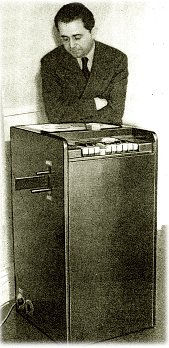 Description: Low-resolution reproduction of 1932 photograph of Rhythmicon and musical educator Joseph Schillinger Source: Stanford University Note: Replaces incorrectly named "Image:Henry Cowell and the Rhythmicon.jpg," which misidentified Schillinger as Rhythmicon coinventor Henry Cowell Public domain explanation This 1932 photo by an unknown photographer was published in the United States without copyright notification. For evidence of publication, see Schillinger, Frances (1976). Joseph Schillinger: A Memoir. New York: Da Capo. ISBN 0306707802.